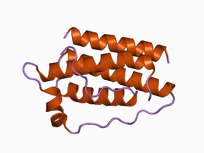 Cartoon representation of the molecular structure of protein registered with 1ax8 code.